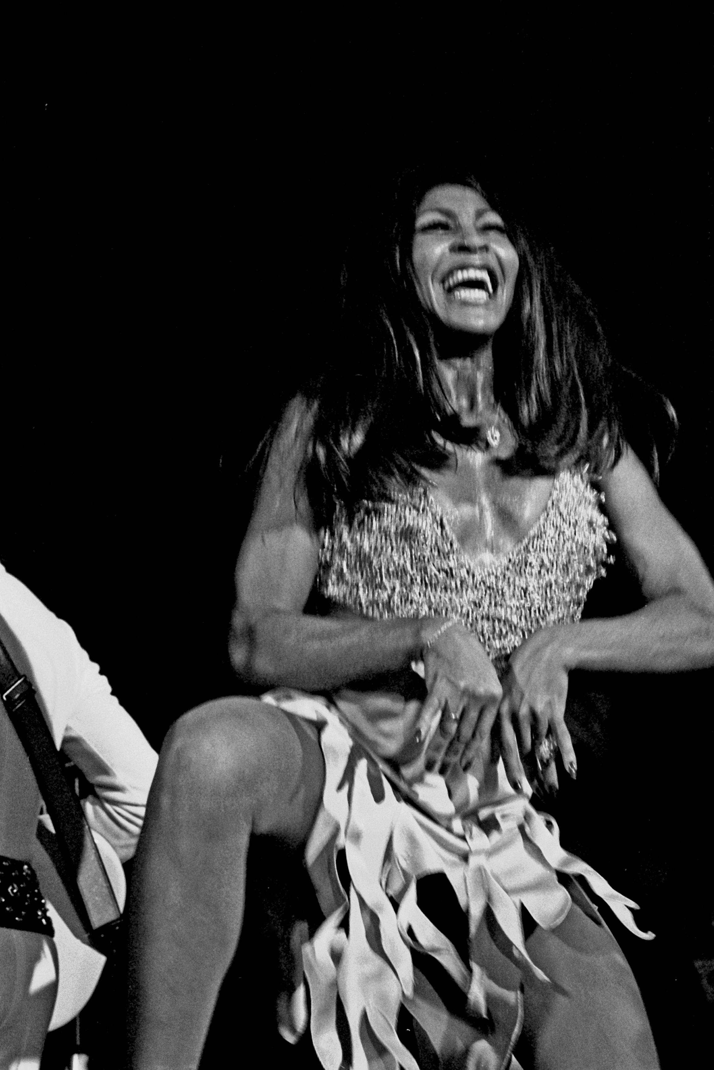 Tina Turner in Hamburg, 1972